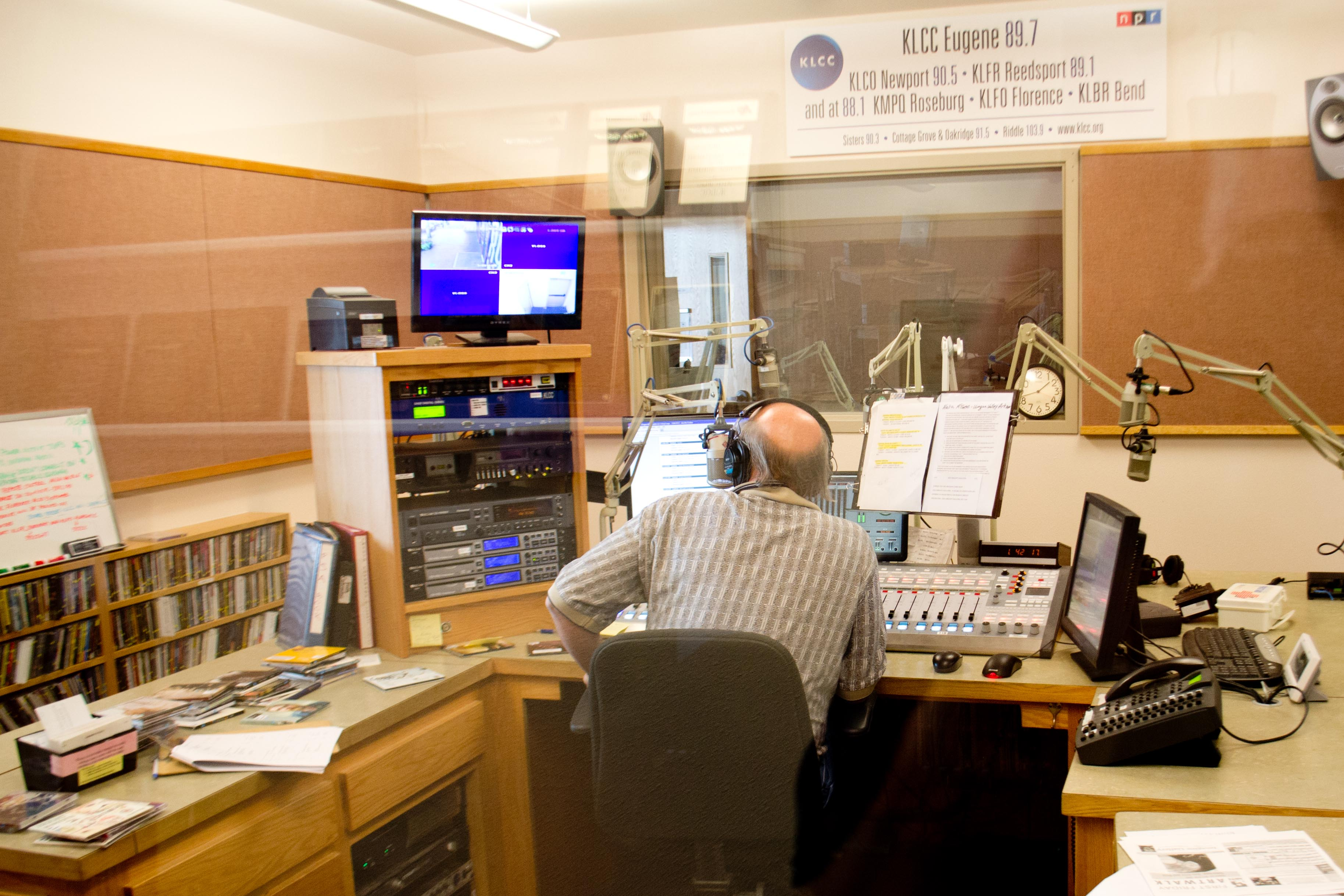 Public Radio in Eugene, Oregon, at 89.7 MHz